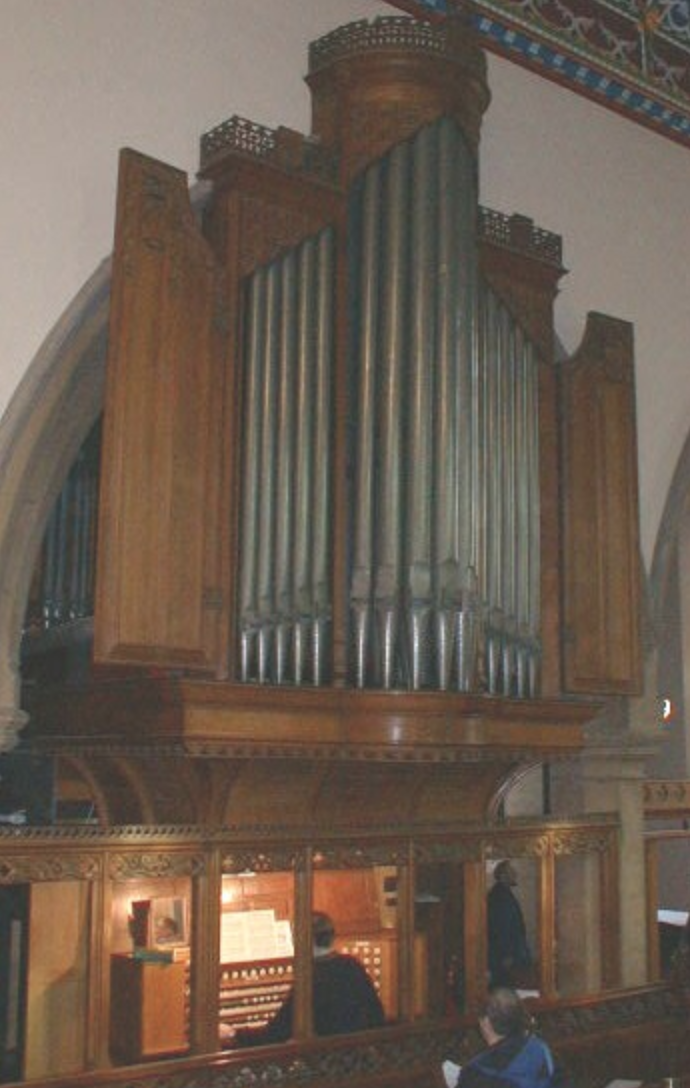 2001 Photo of Martin Singleton (presuming) playing the 1900 T.C.Lewis organ